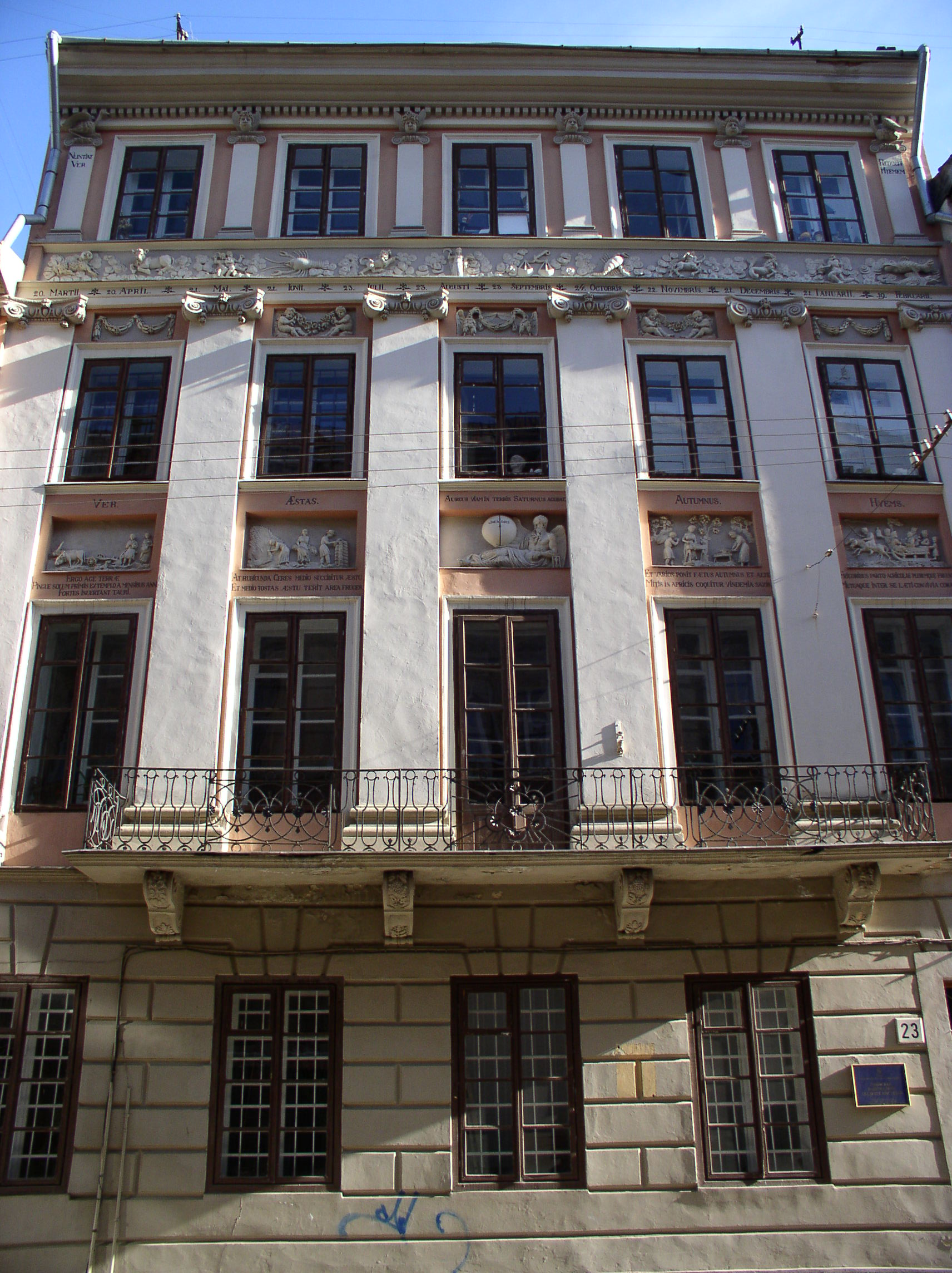 Armenian St. 23. Lviv, Ukraine.